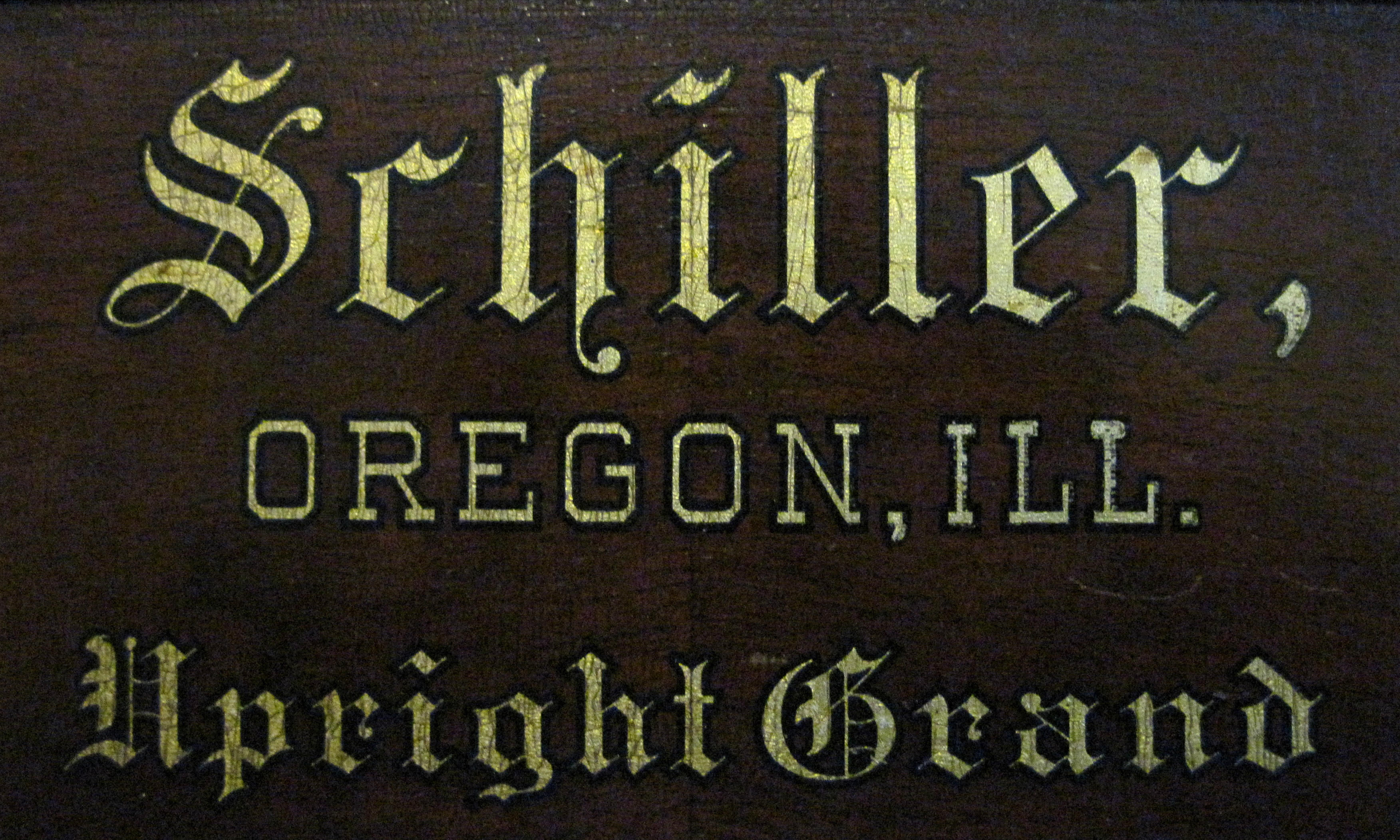 Schiller company branding on my antique upright piano. The instrument was built at the Schiller Piano Company factory in Oregon, Illinois.